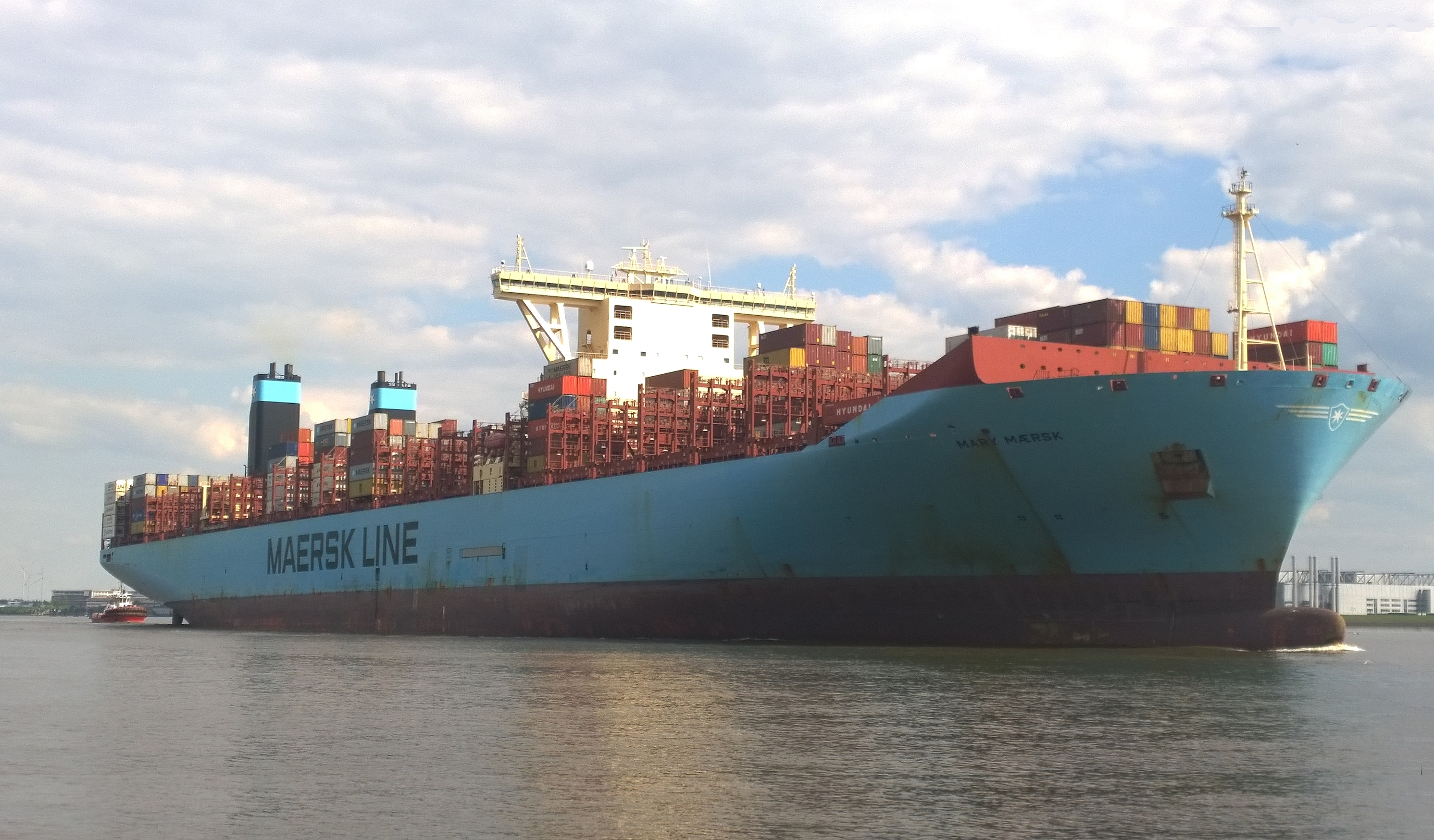 Container ship Mary Mærsk on the river Elbe with Hamburg port of destination in May 2017